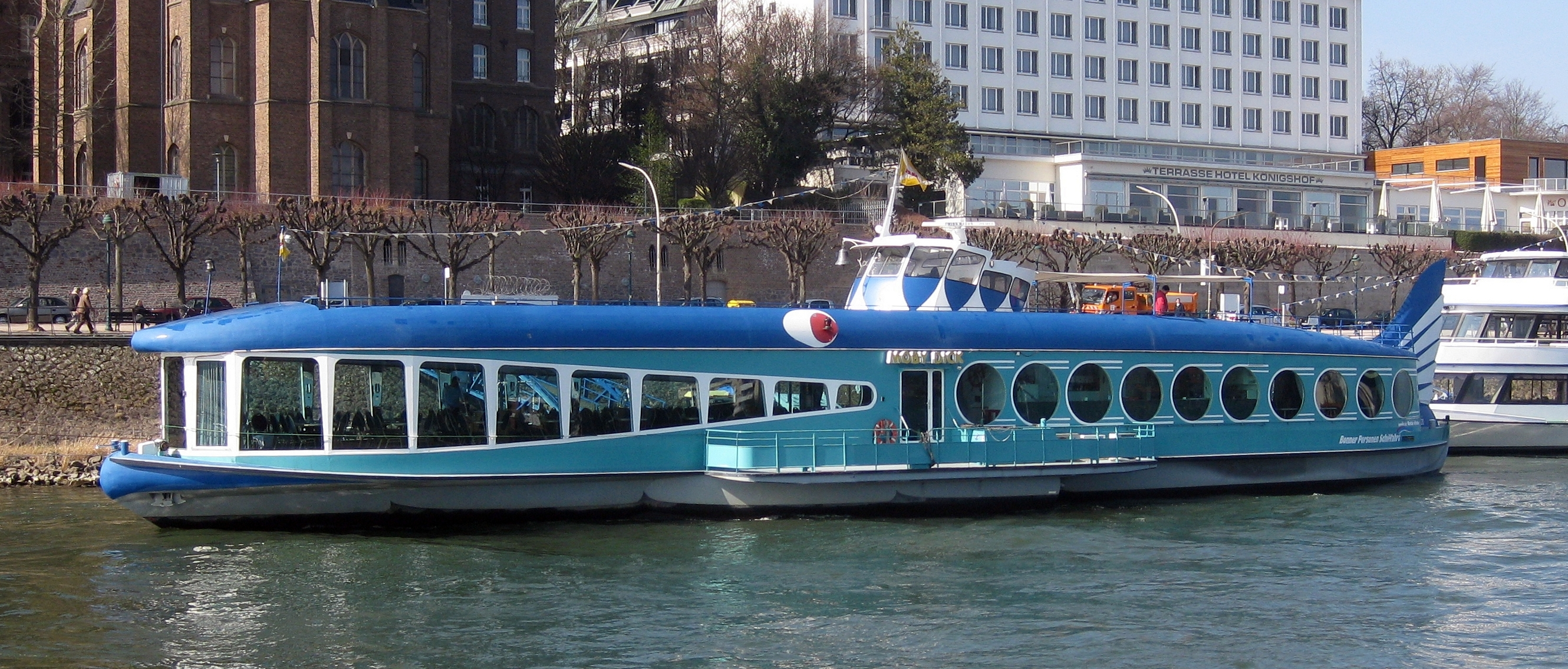 Bonn,Passenger ship "Moby Dick" on the Rhine river.